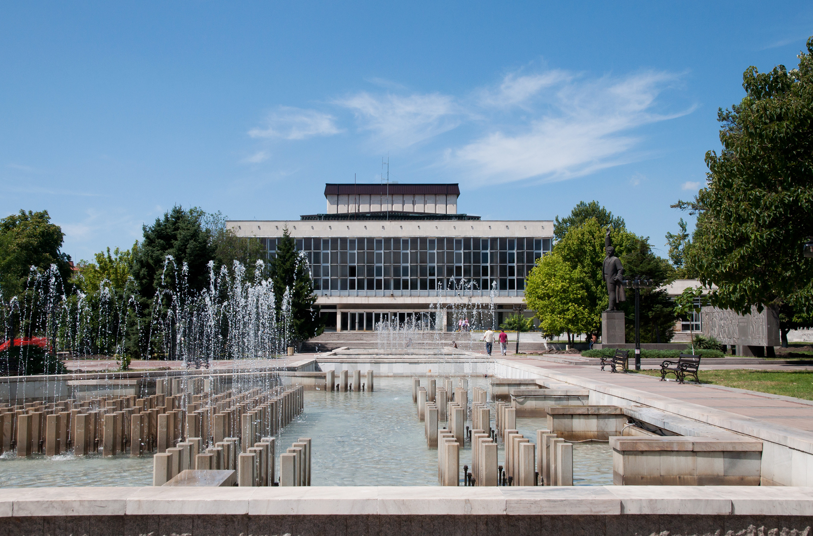 The main square with the cultural centre in the background, Nova Zagora town, Bulgaria.